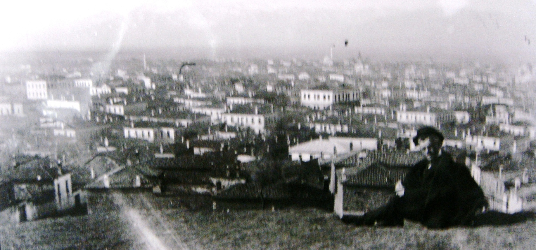 View of the Plovdiv, in 1918. This media file is produced by Wikipedian in Residence in Category:Wikipedian in Residence at DARM in 2016.